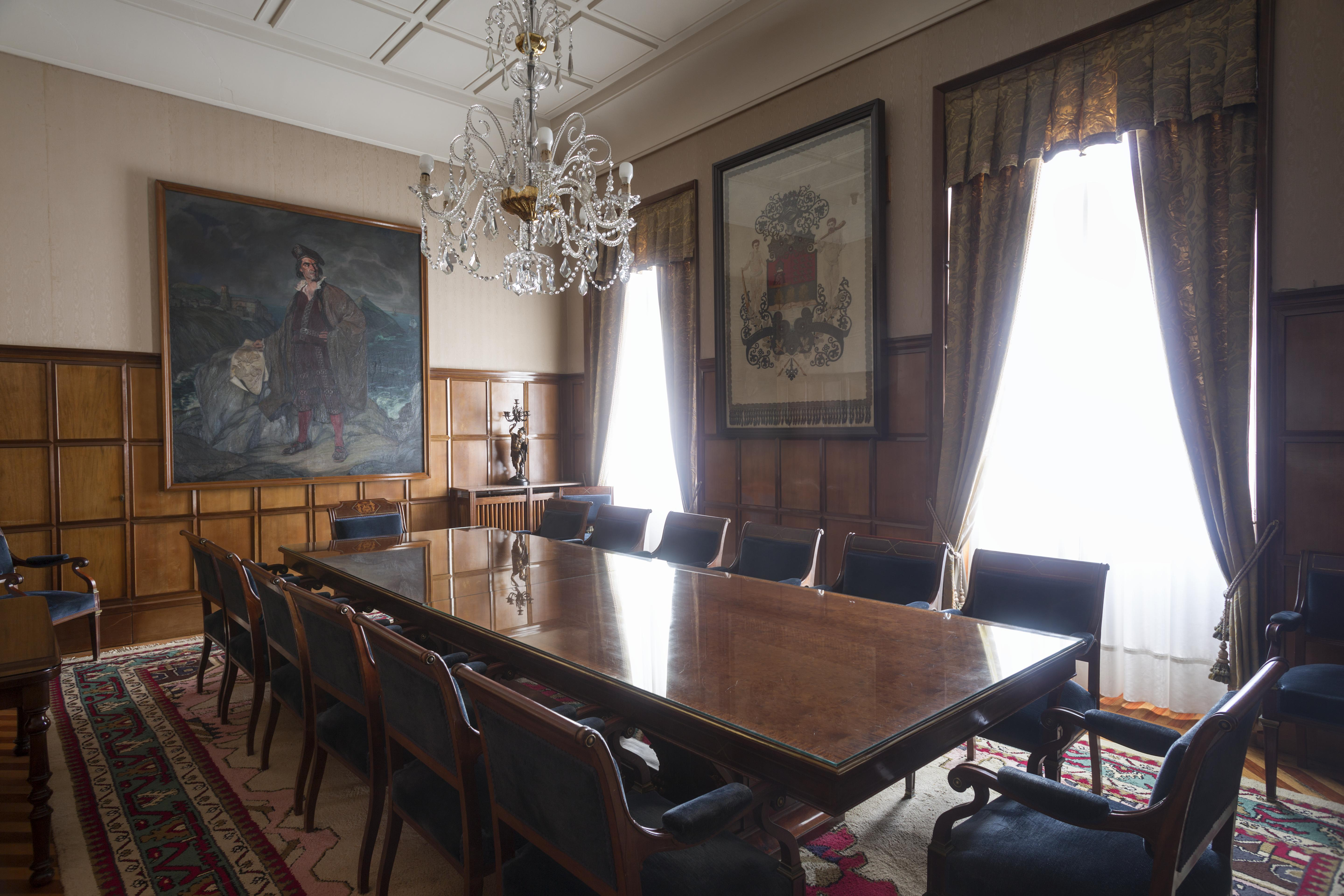 Room in honor of Juan Sebastian Elcano